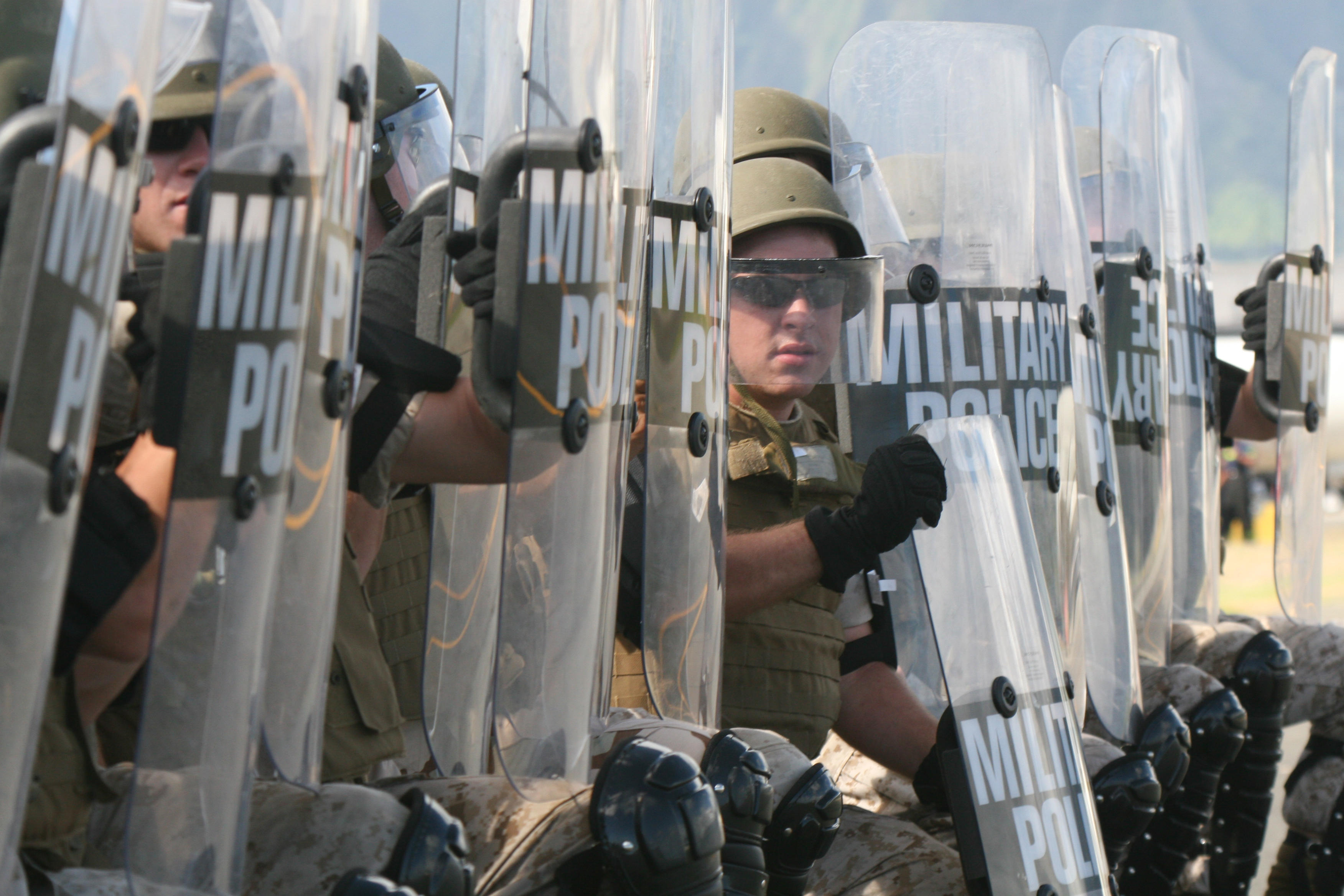 Marines and sailors practice riot drills during exercise Lethal Breeze at Marine Corps Air Station Kaneohe Bay, Hawaii, Sept. 8, 2010. Lethal Breeze is an annual combined military and Honolulu Police Department antiterrorism exercise.